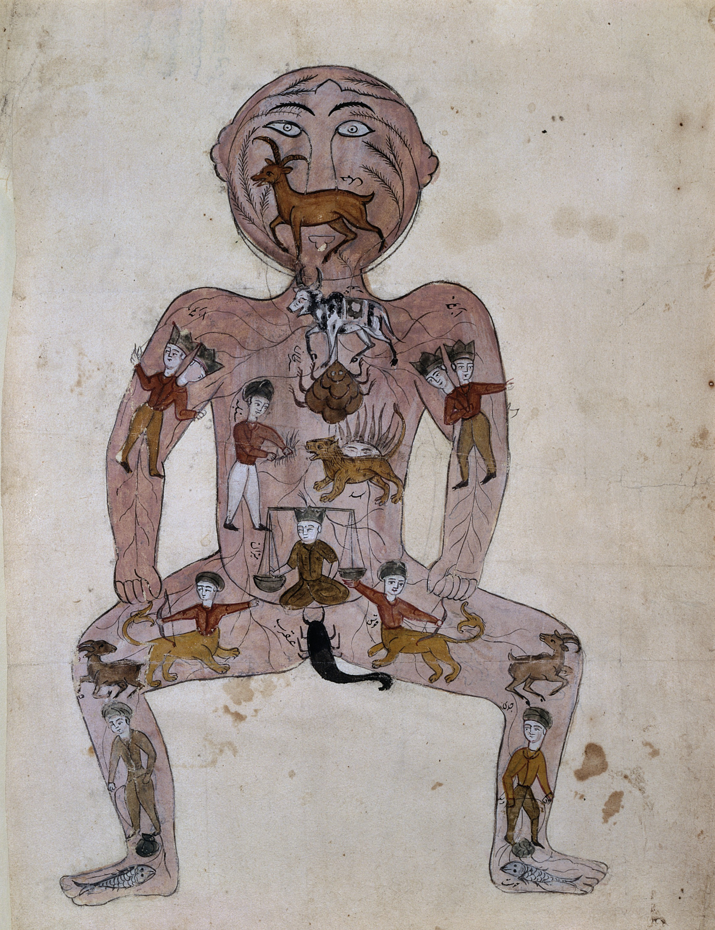 Illustration showing a Zodiac man. Persian annotations on the image. Diagram in a Persian MSS of the Zakhira-i Khvarazm Shahi of al-Jurjani and Tashrih-i Mansuri of Mansur. Iconographic Collections Keywords: Arabic; Iranian; Persian; Zodiac man; Anatomy; Art; Astrology